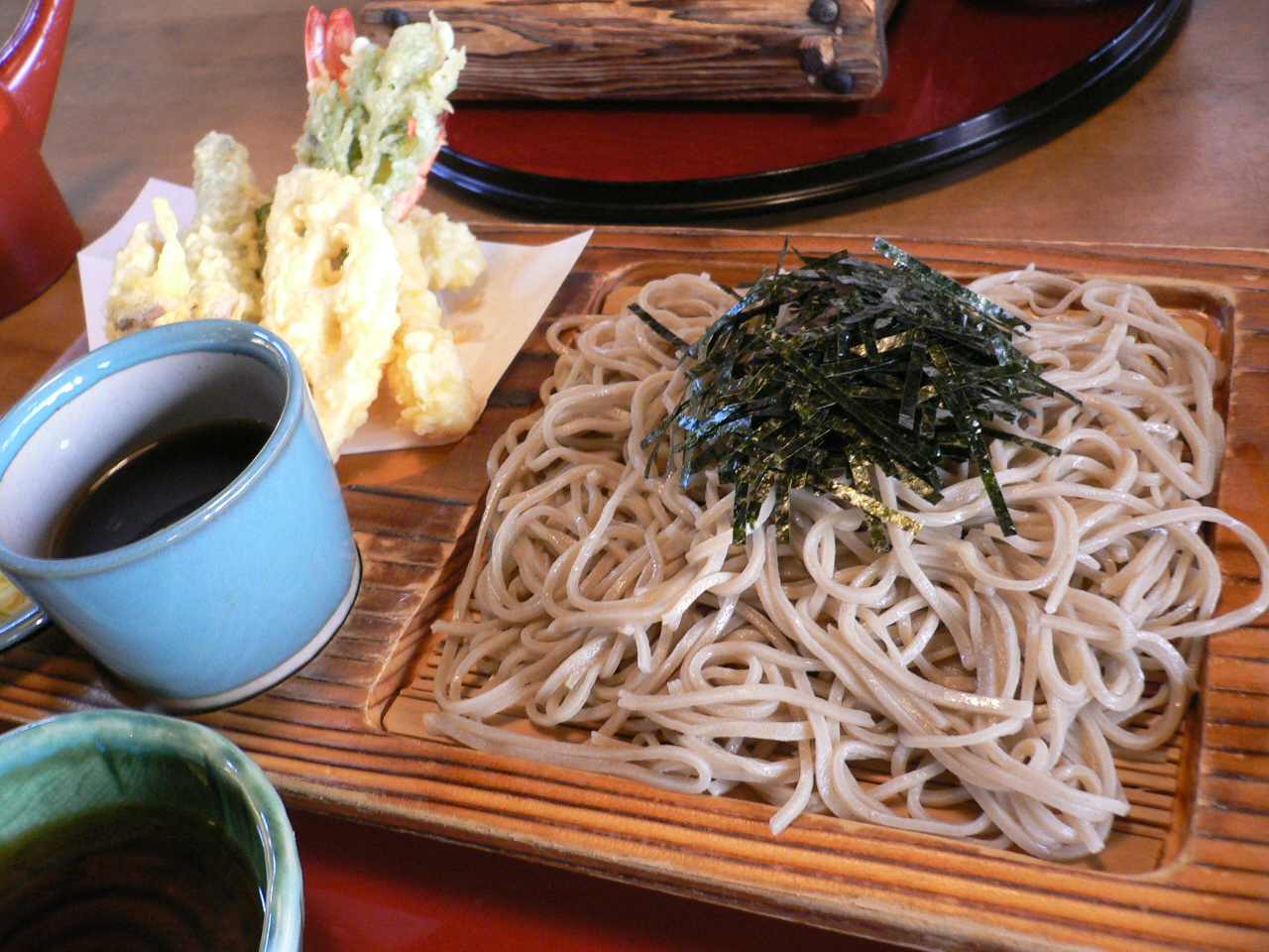 buckwheat noodles